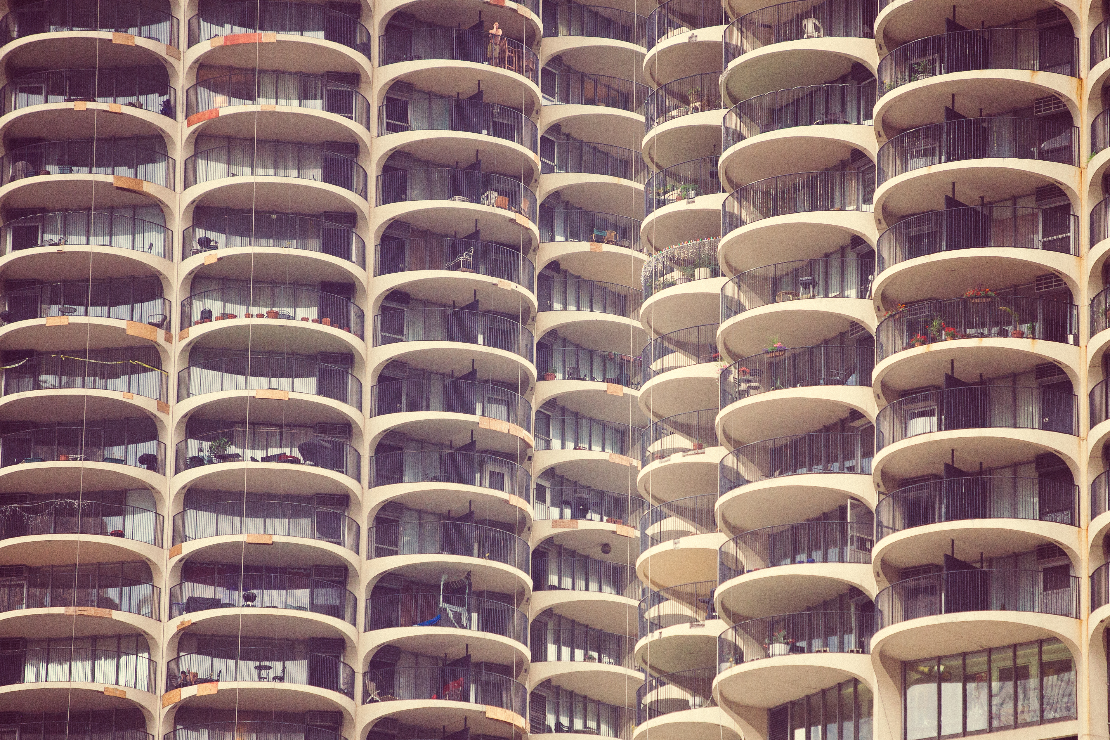 Public Domain stock photo - Downtown Chicago Marina City CornCob Sky Scrapers Released by Matt Hobbs via